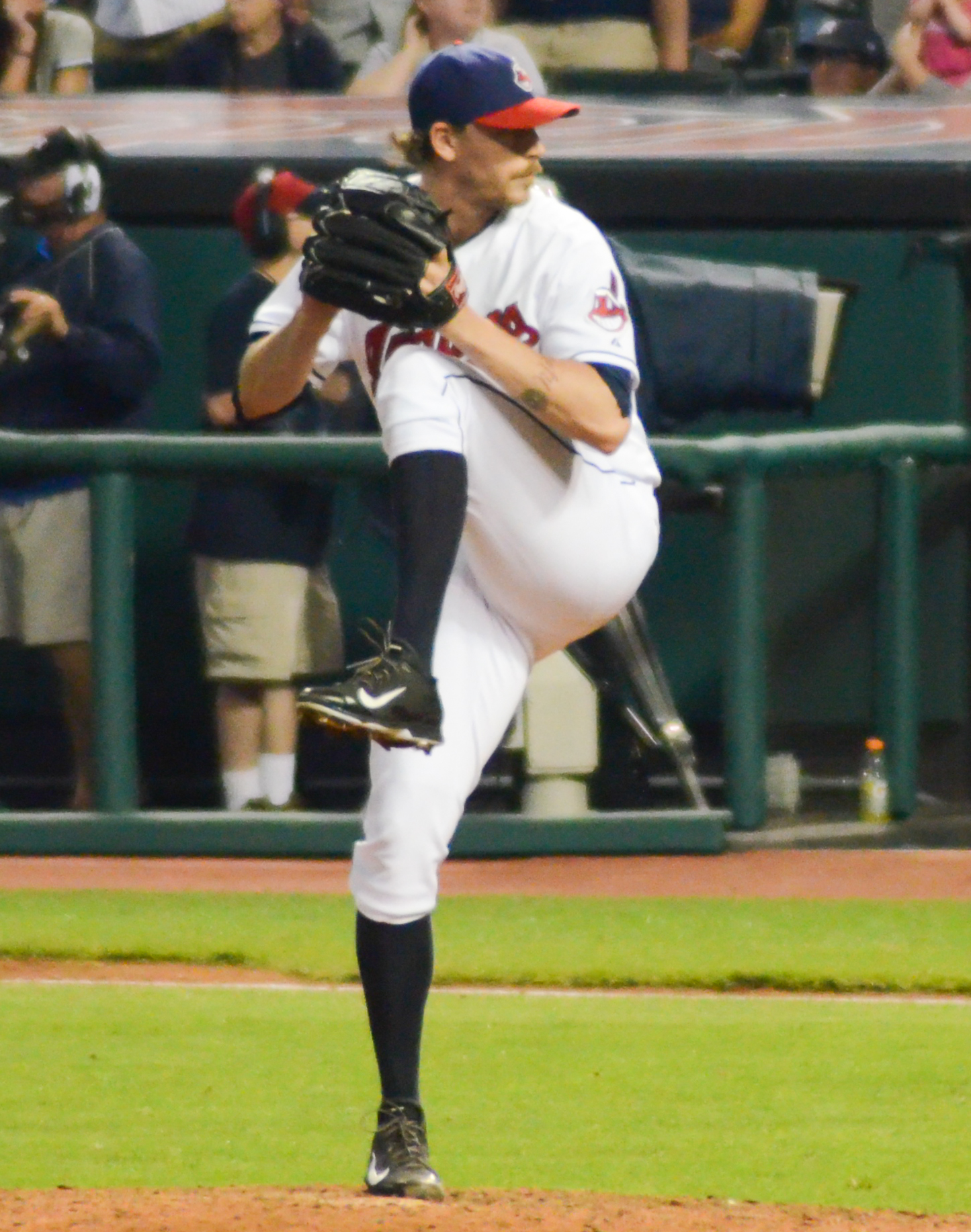 John Axford